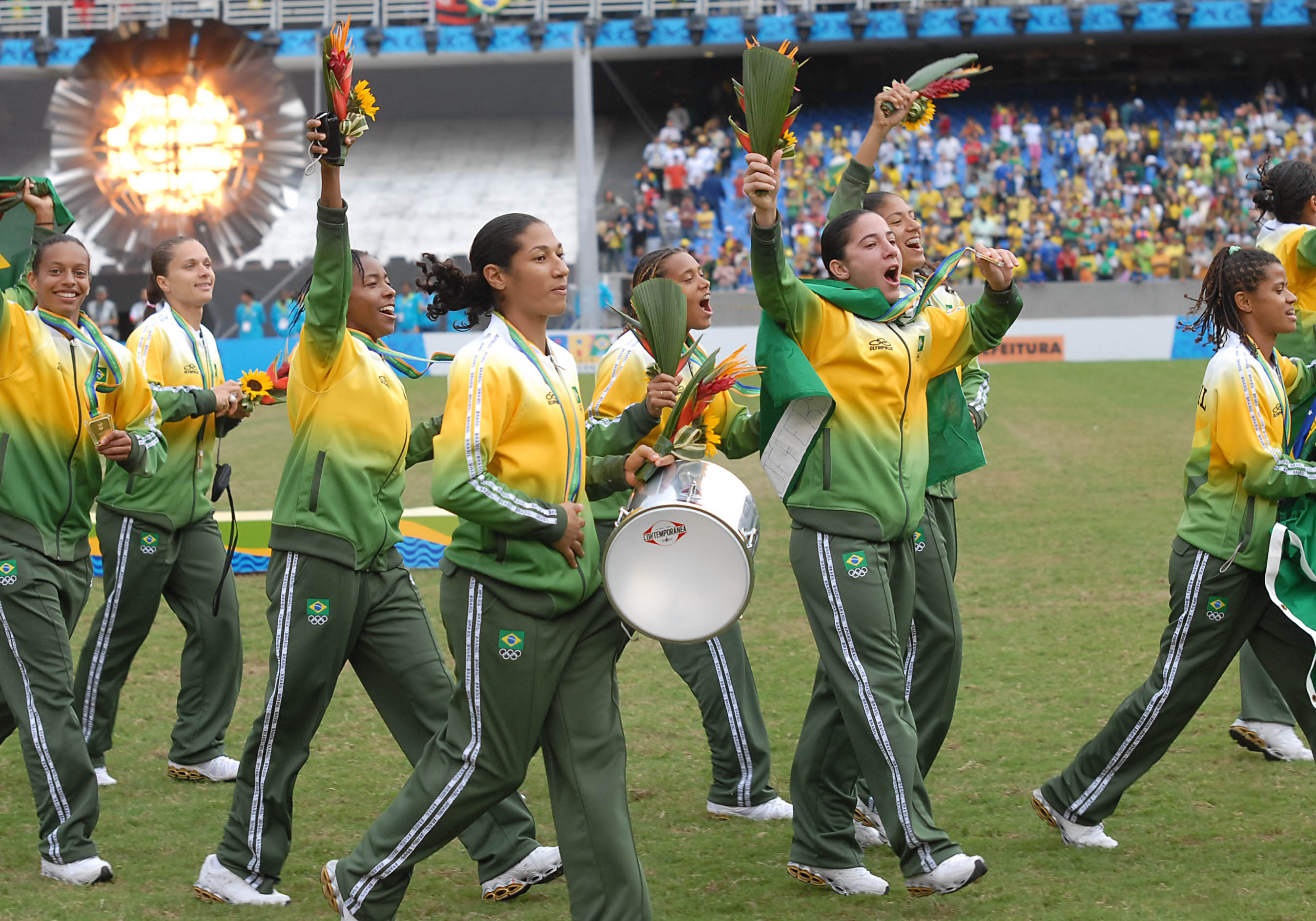 Brazil women's national football team celebrates the gold medal at the 2007 Pan American Games